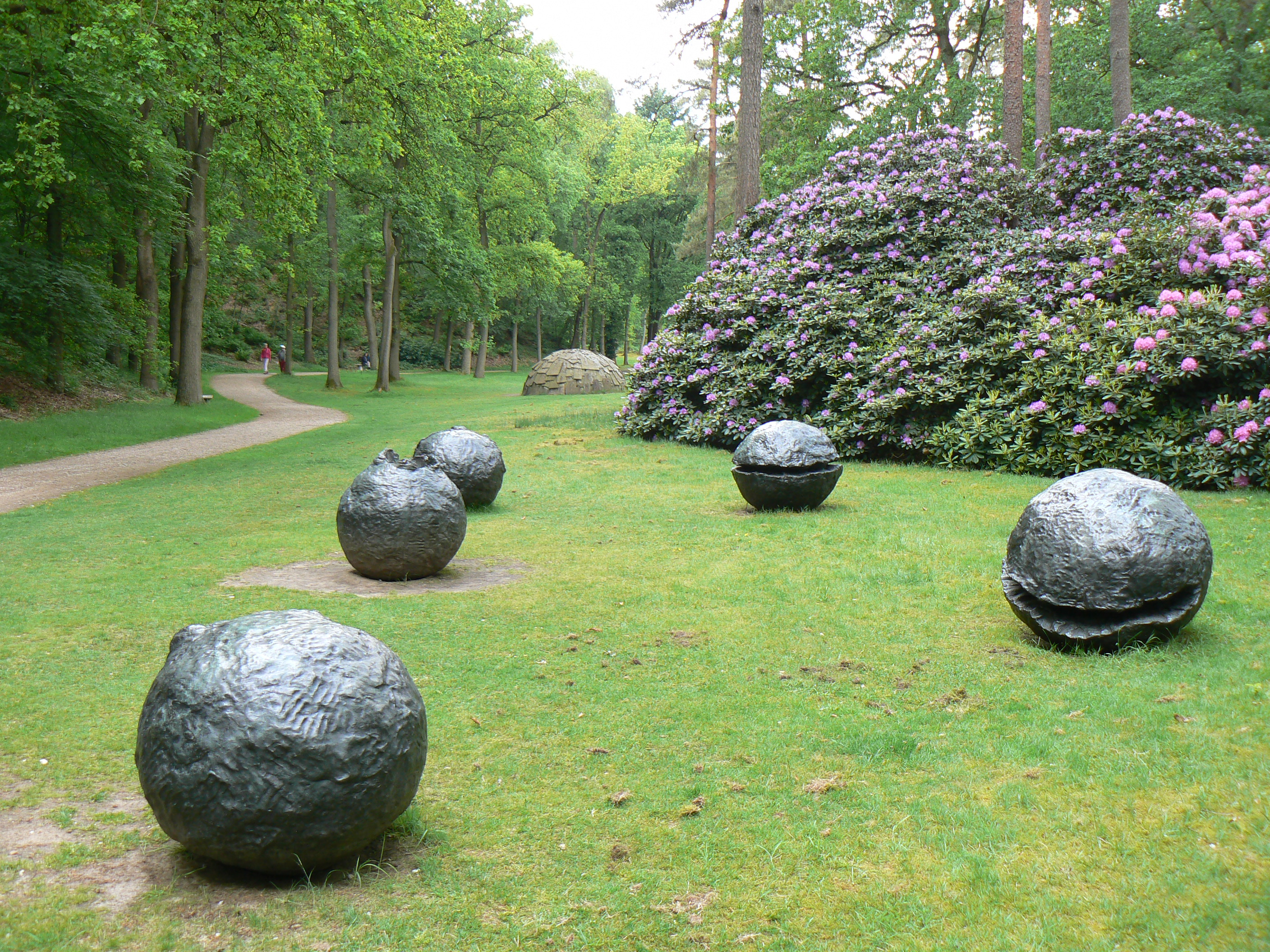 sculpture Concetto spaziale Natura (1959-1960) by Lucio Fontana in KMM sculpturepark/The Netherlands